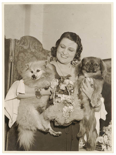 Format: Photograph "Gladys Moncrieff with her Pekingese and Pomeranian dogs on her birthday, 13 April 1937" Notes: Find more detailed information about this photograph: .au/item/itemDetailPaged.aspx?itemID=153809 Search for more great images in the State Library's collections: .au/search/SimpleSearch.aspx From the collection of the State Library of New South Wales